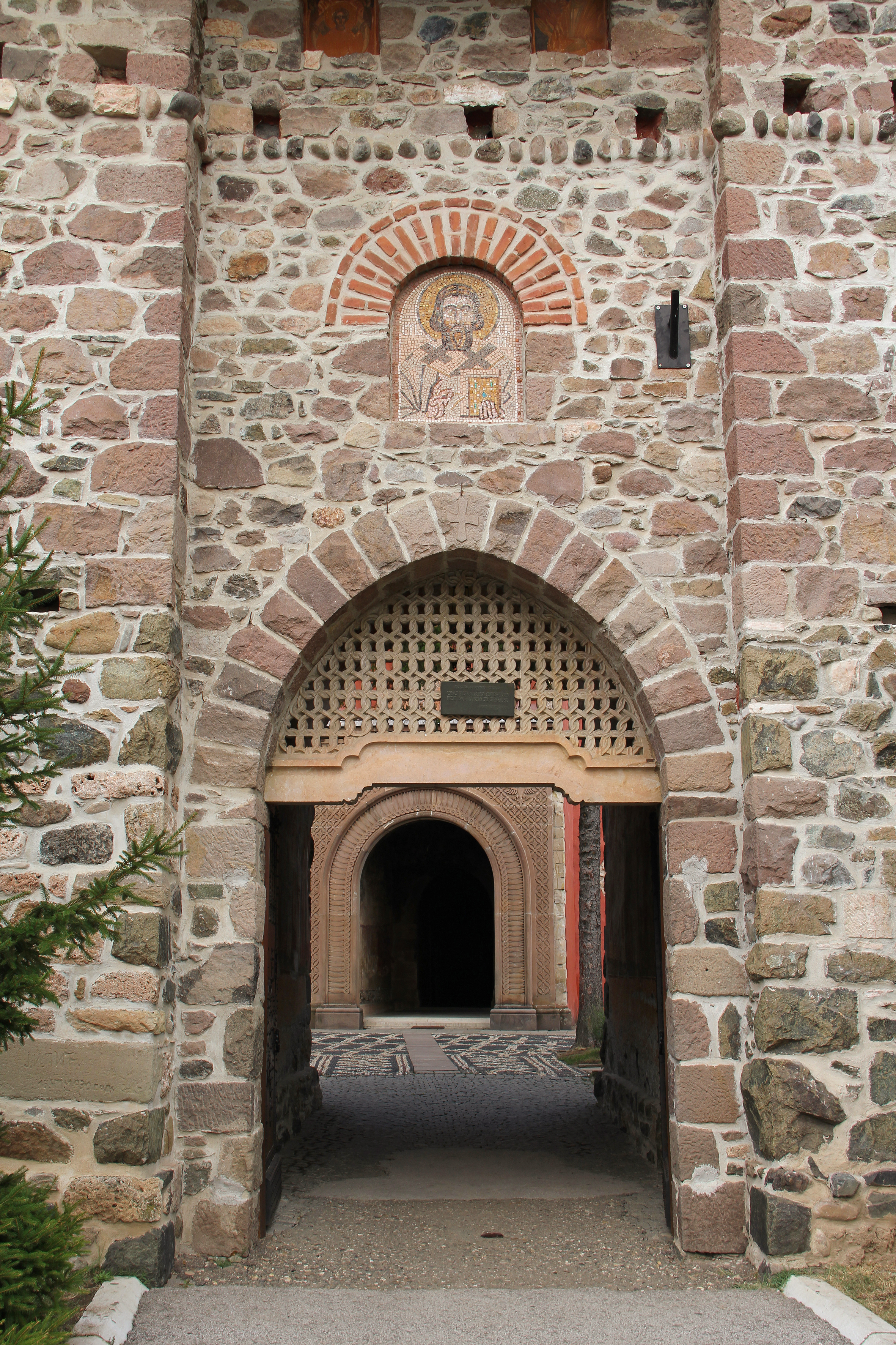 Zica is an early 13th-century Serb Orthodox monastery near Kraljevo, Serbia. The monastery, together with the Church of the Holy Dormition, was built by the first King of Serbia, Stefan the First-Crowned and the first Head of the Serbian Church, Saint Sava.